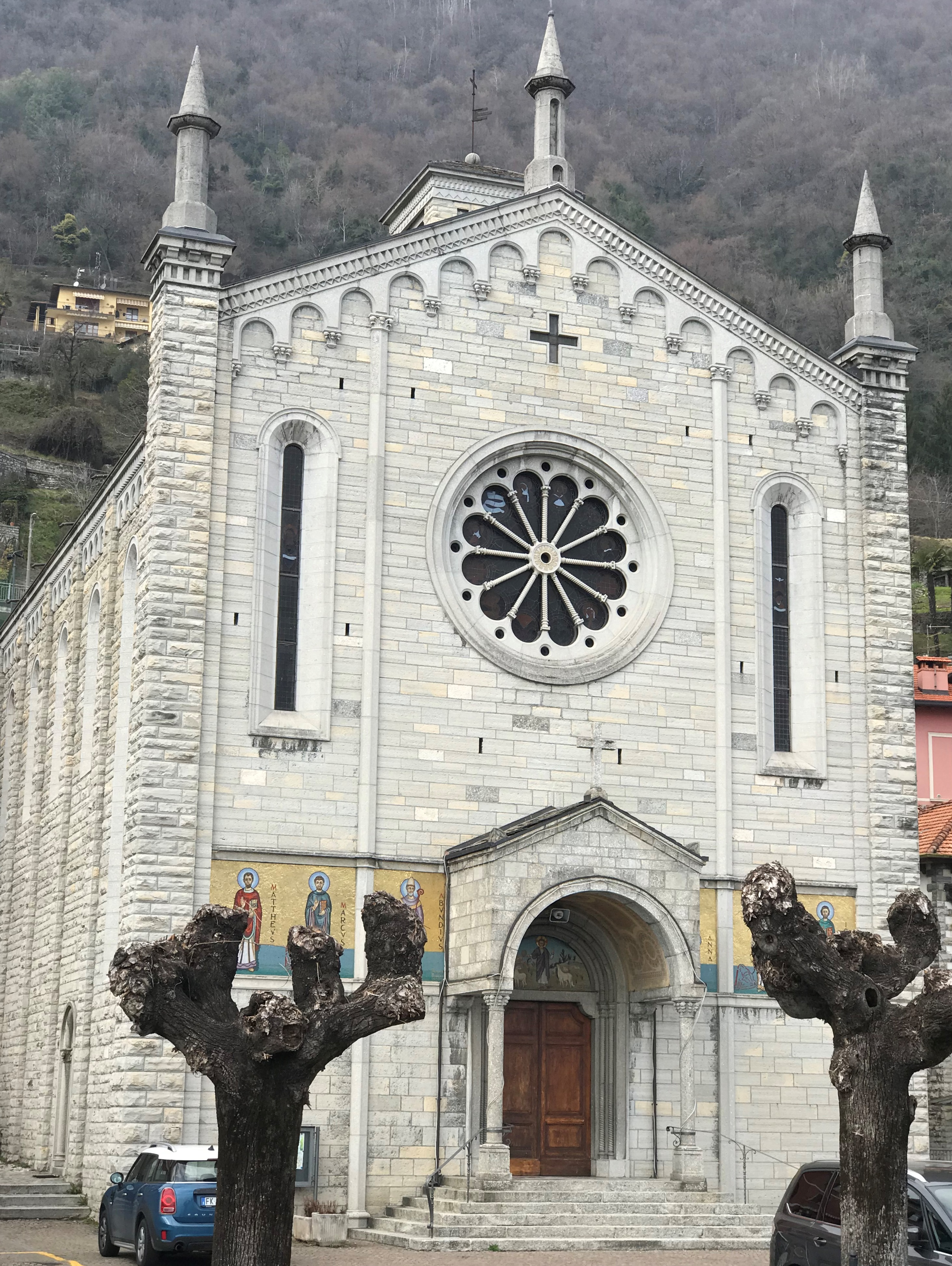 Argegno-Chiesa Front